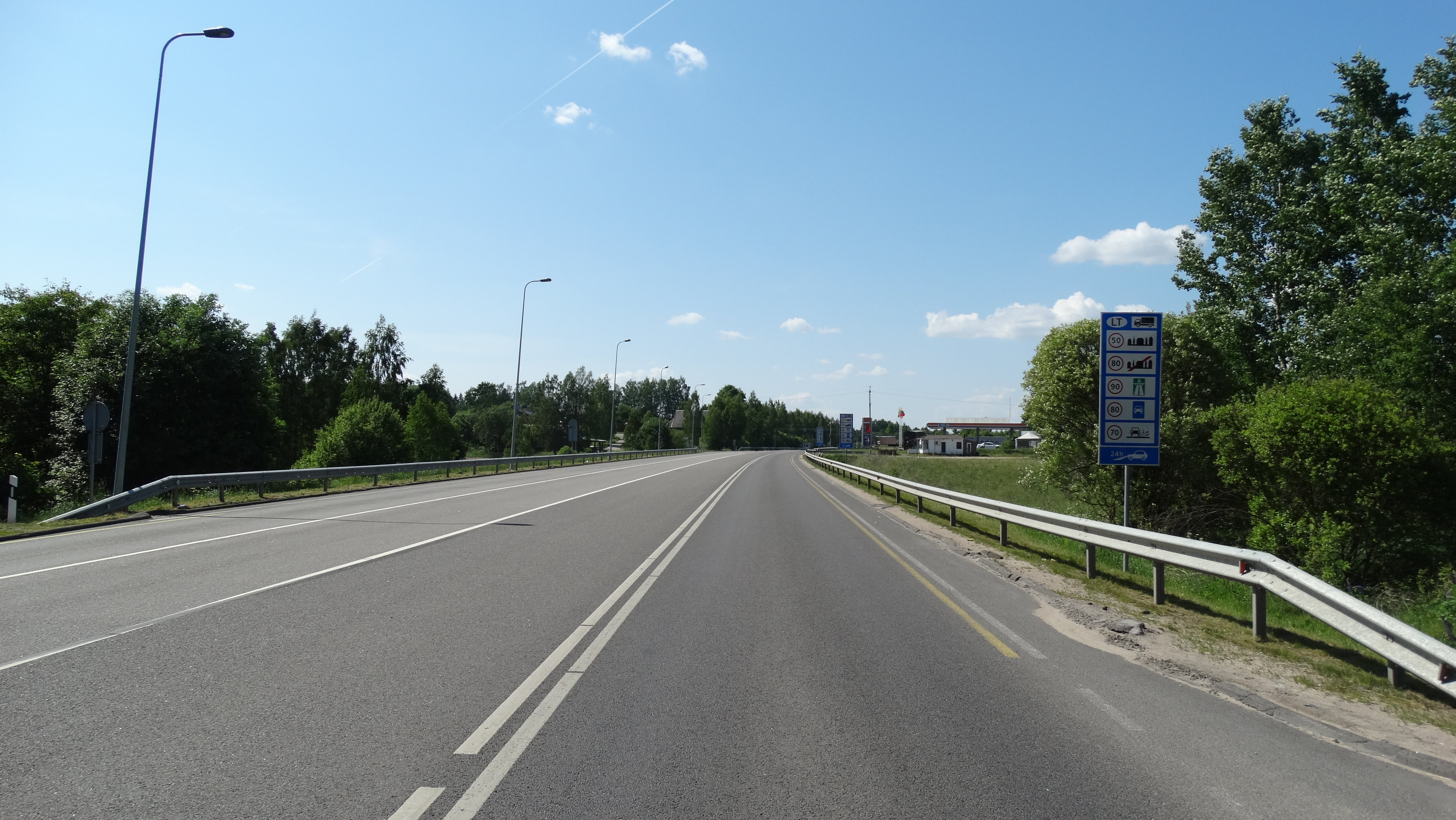 Highway A3, by Belarus-Lithuania border, Vilnius District, Lithuania